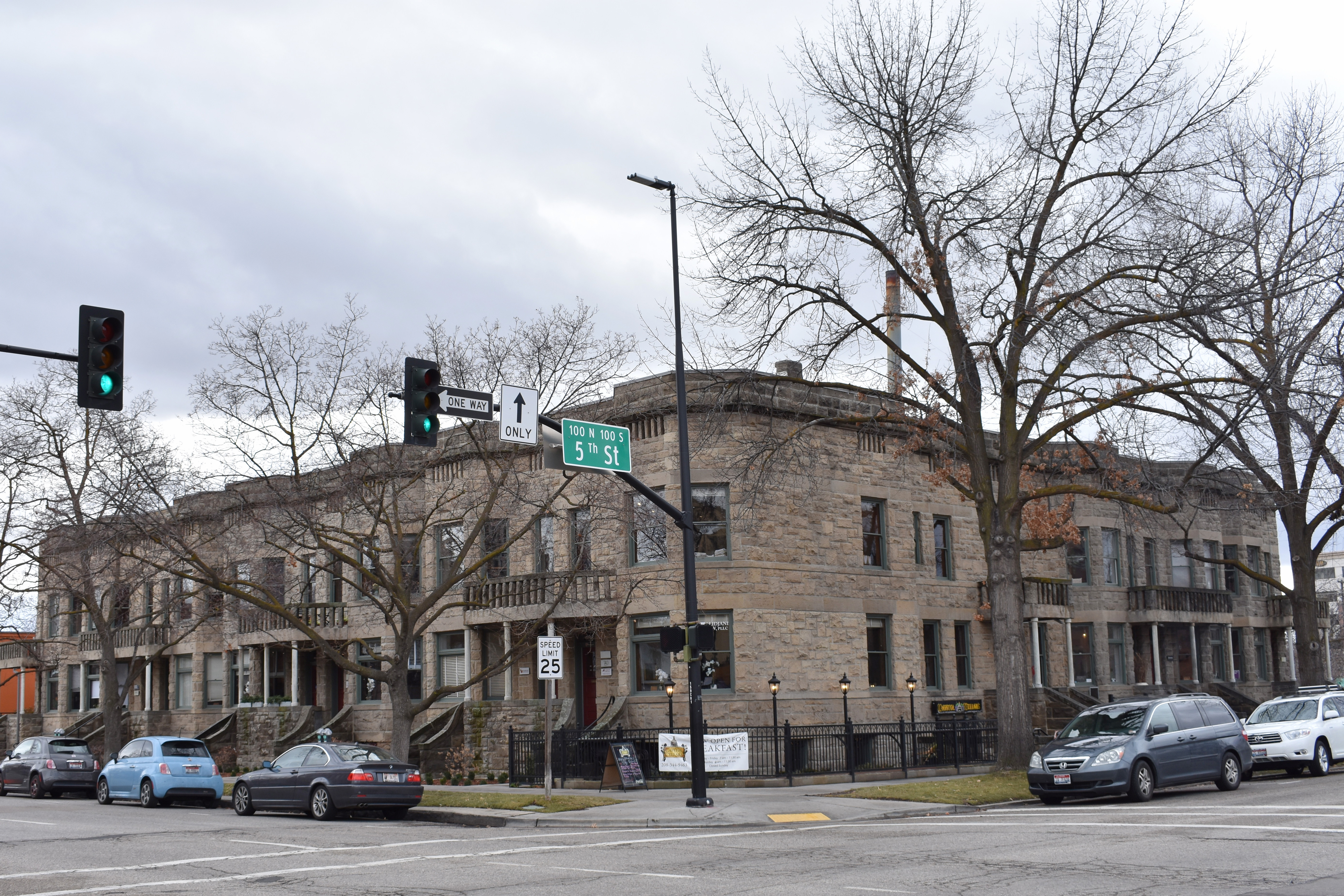 The Belgravia Building (1904) in Boise, Idaho, is a former apartment building known first as the DuBois Flats then as Belgravia Terraces and Belgravia Apartments. The building was remodeled, and it now provides office and restaurant space.